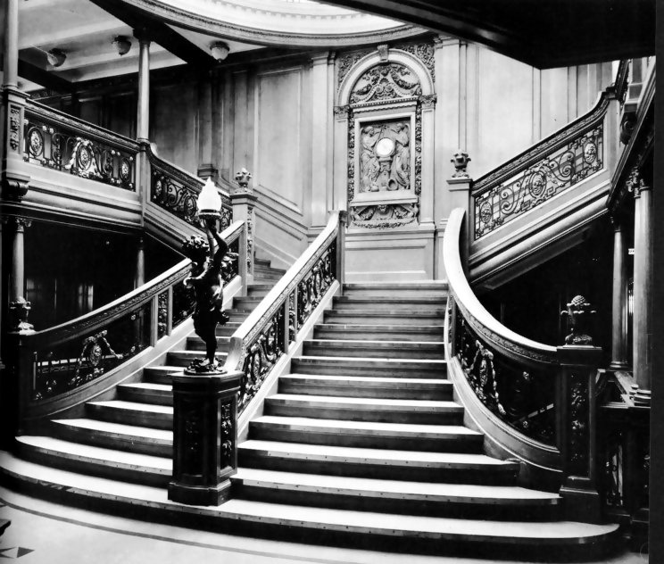 The Grand Staircase of the RMS Olympic.